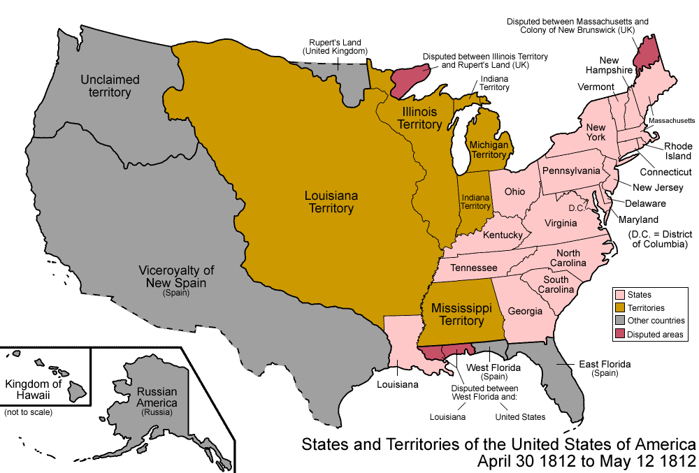 Map of the states and territories of the United States as it was from April 1812 to May 1812. On April 30 1812, most of Orleans Territory was admitted as the state of Louisiana. On May 12 1812, the federal government assigned its annexed land of West Florida to Mississippi Territory.